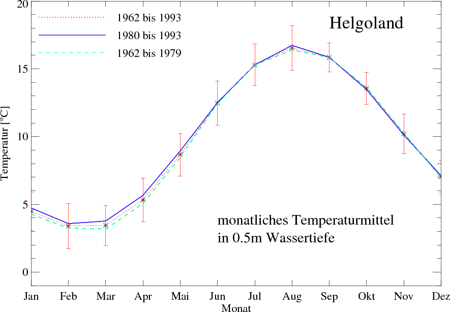 Monthly average of water temperature near Helgoland at 0.5m depth, 1962 to 1993 (based on Helgoland time series, Wahl, E; Hickel, Wolfgang (1999): Helgoland time series 1993, and earlier releases)